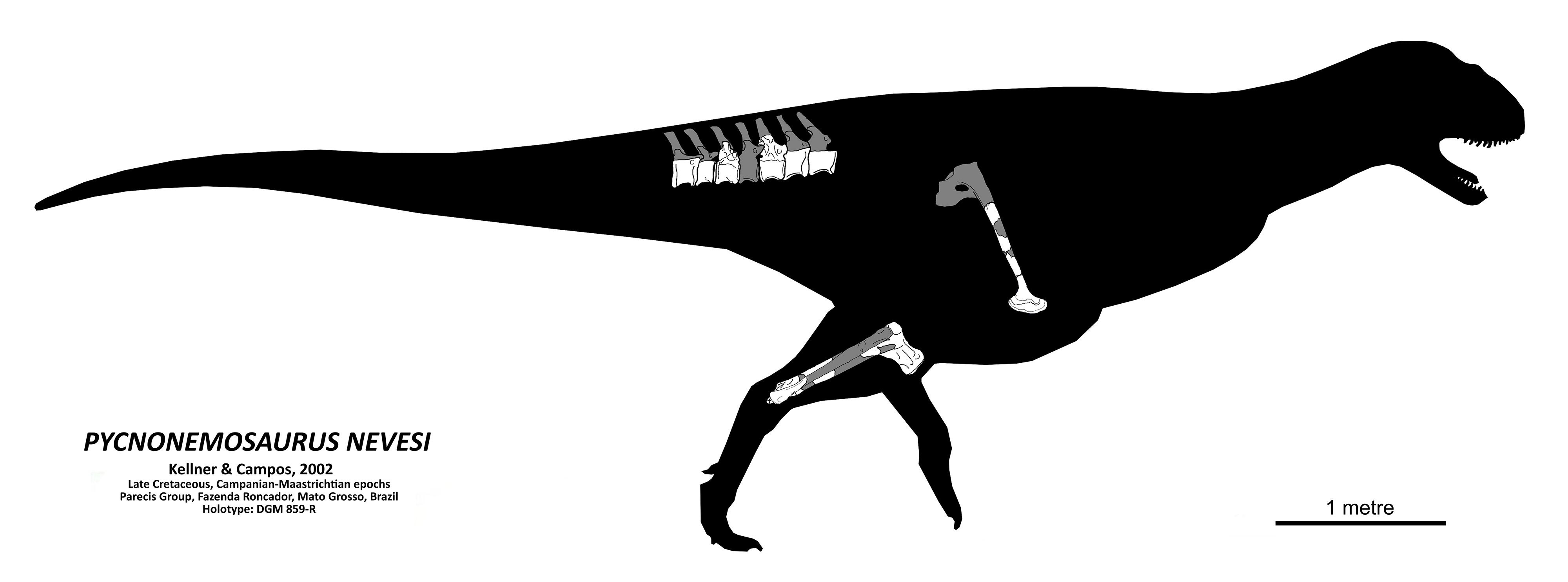 Skeletal reconstruction of Pycnonemosaurus nevesi using Carnotaurus as a guide.